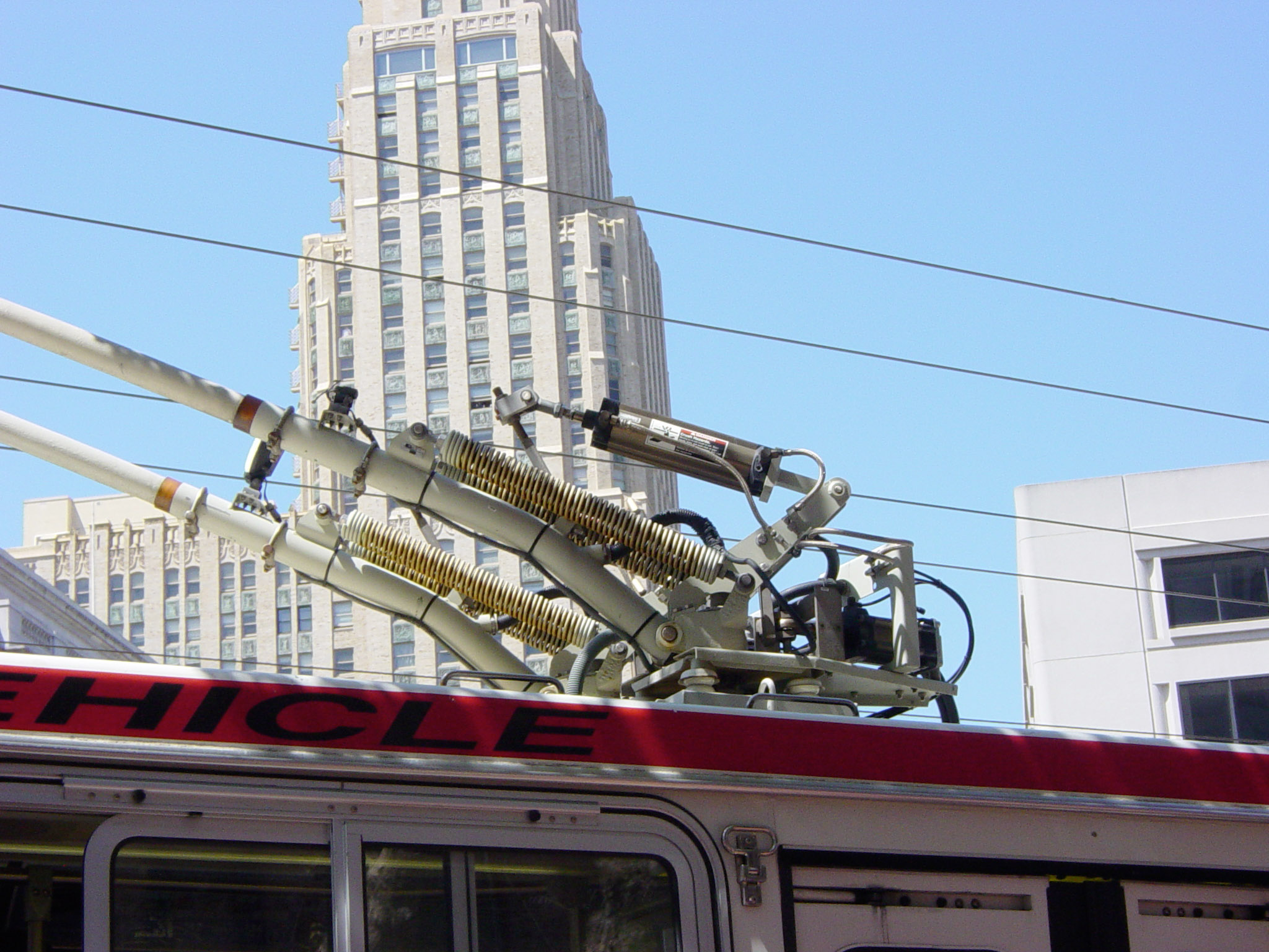 Electric bus trolly mechanism, San Francisco Muni - pole support springs and motion dampers. Image by User:Leonard G.